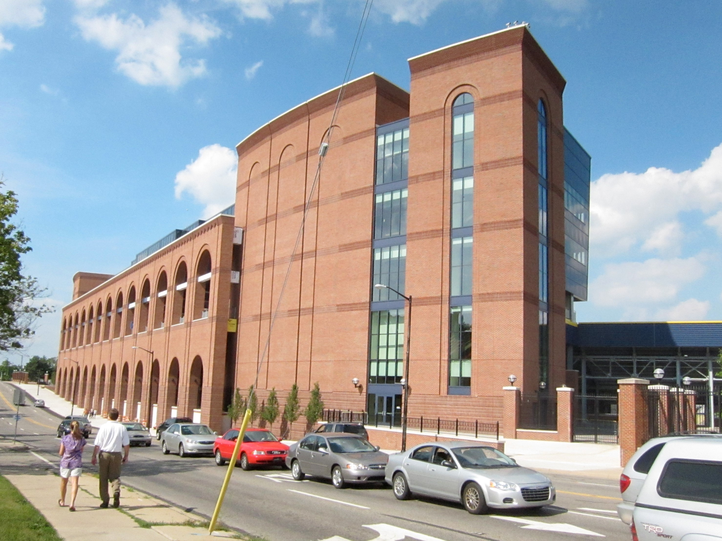 The new west side structure at Michigan Stadium, viewed from the southwest. Taken during a public open house, July 14, 2010.